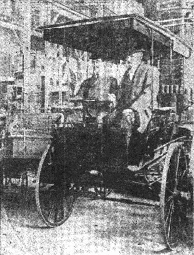 Arntz and Morrison in 1890 in downtown Des Moines, Iowa